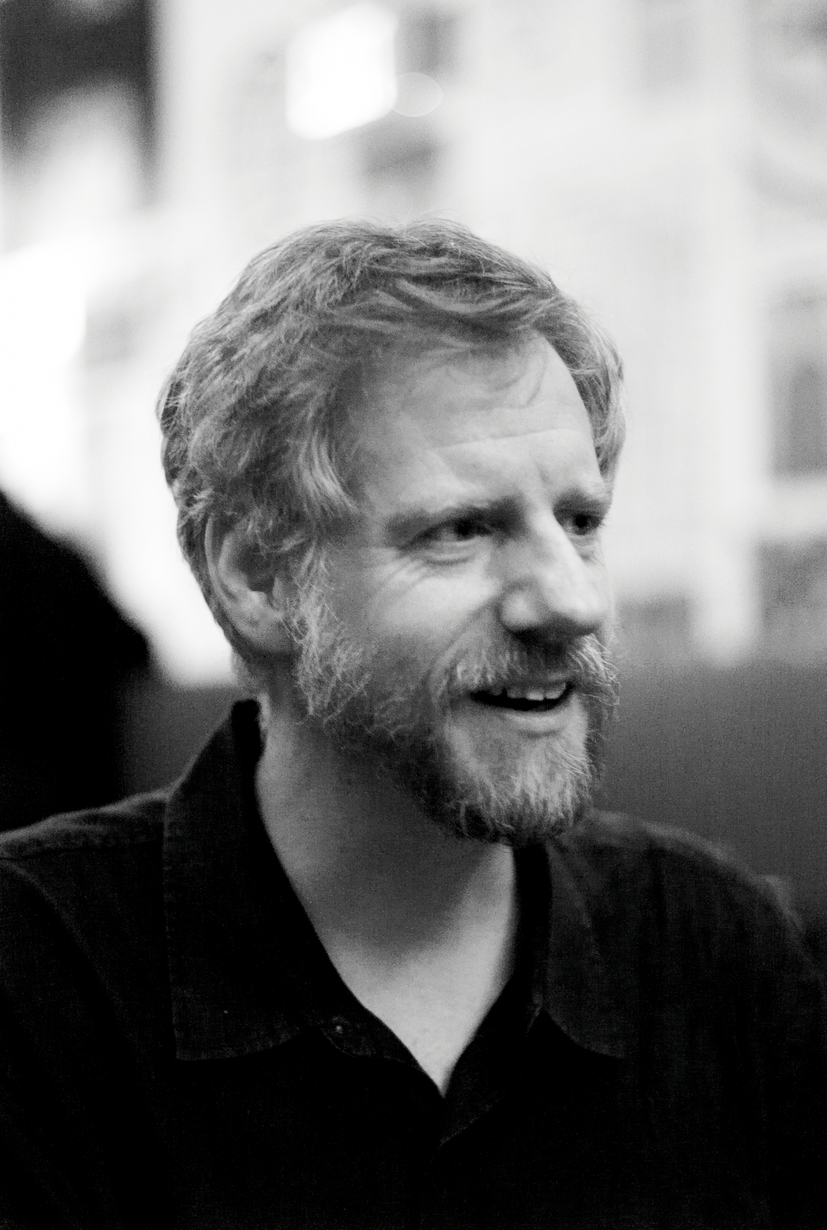 Author: Joi Ito Subject: Michael W. Carroll URL